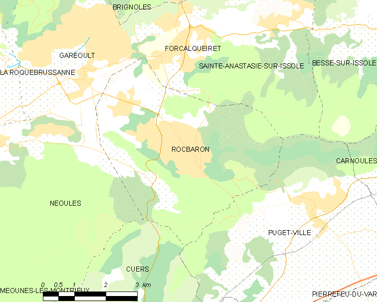 Map of French municipality Rocbaron